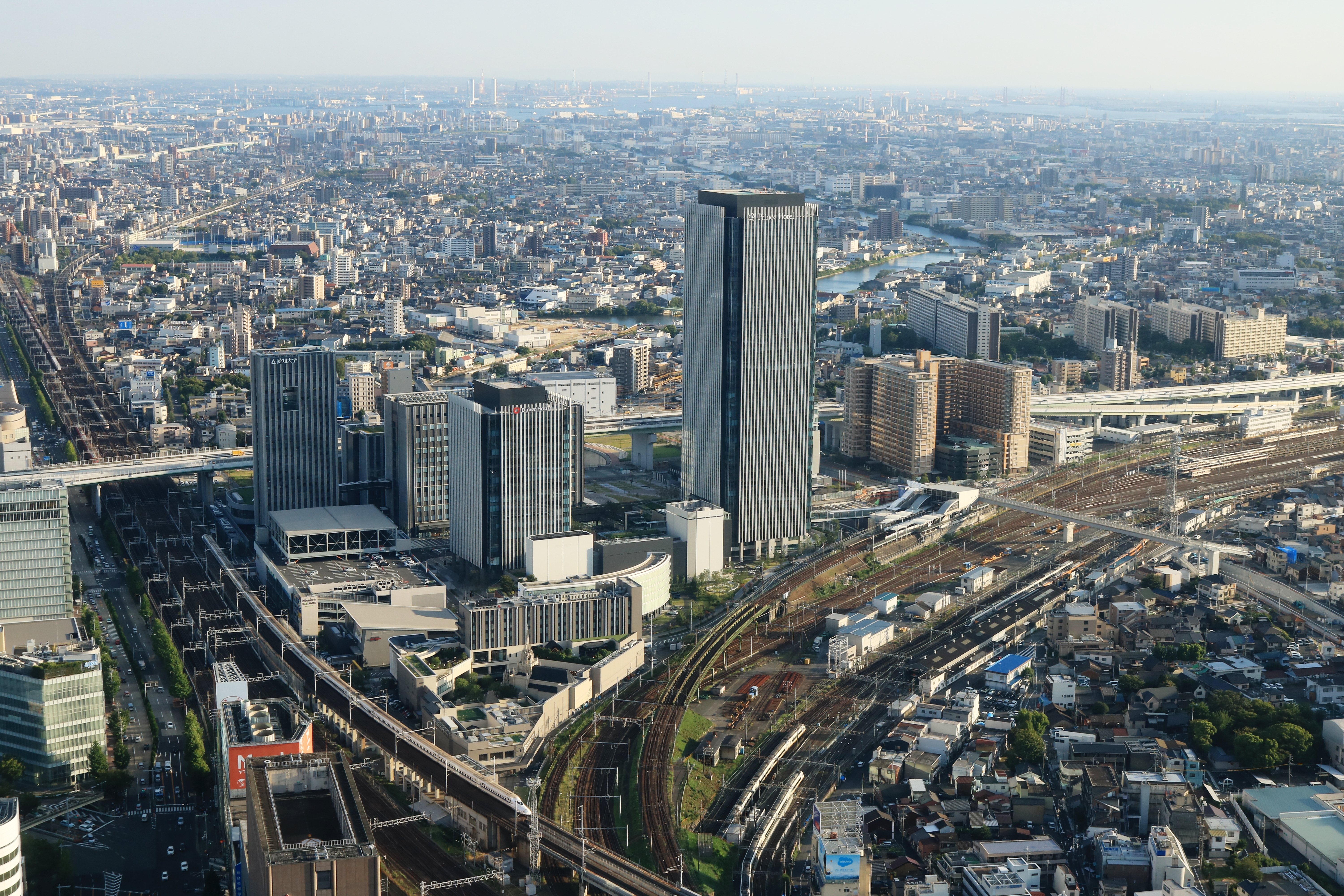 Sasashima-raibu24 seen from Midland Square in Nakakura-ku, Nagoya, Aichi prefecture, Japan.